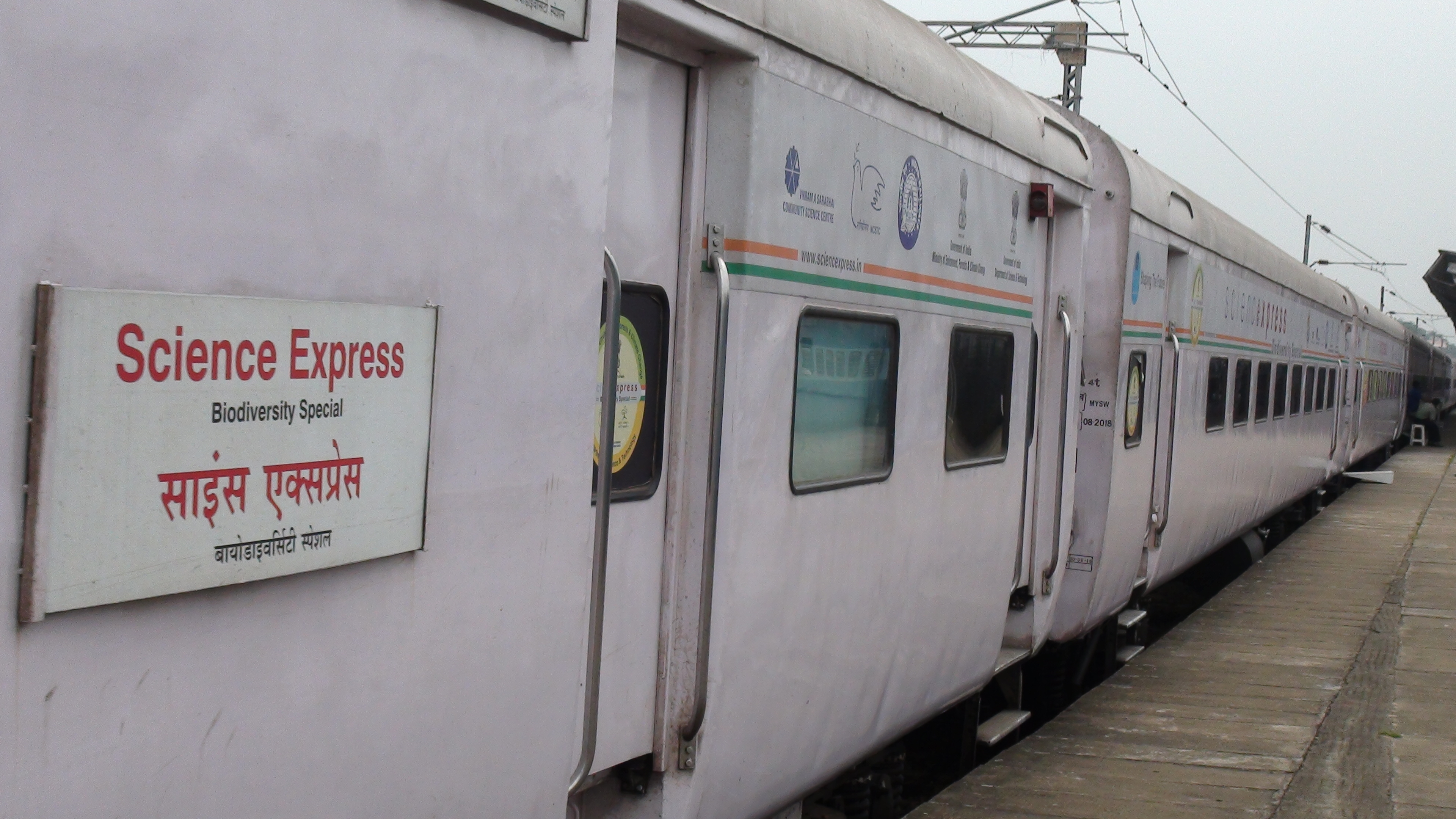 science express bio diversity special